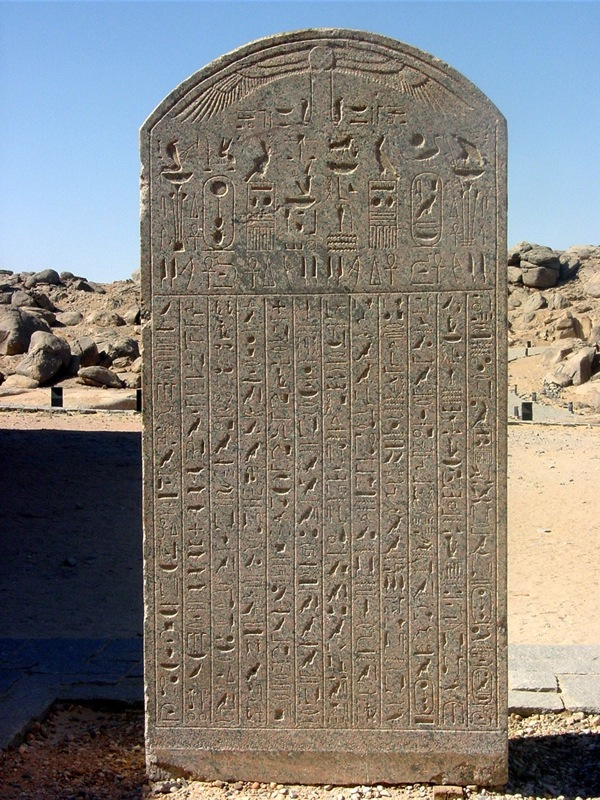 This is a well preserved victory stela which was erected by Pharaoh Psamtik II of the 26th Saite dynasty (c.592 BC) at Kalabsha when he returned from campaigning in Nubia. Psamtik II had sacked the Kushite capital of Napata and defeated his rival there--king Aspelta of Nubia.